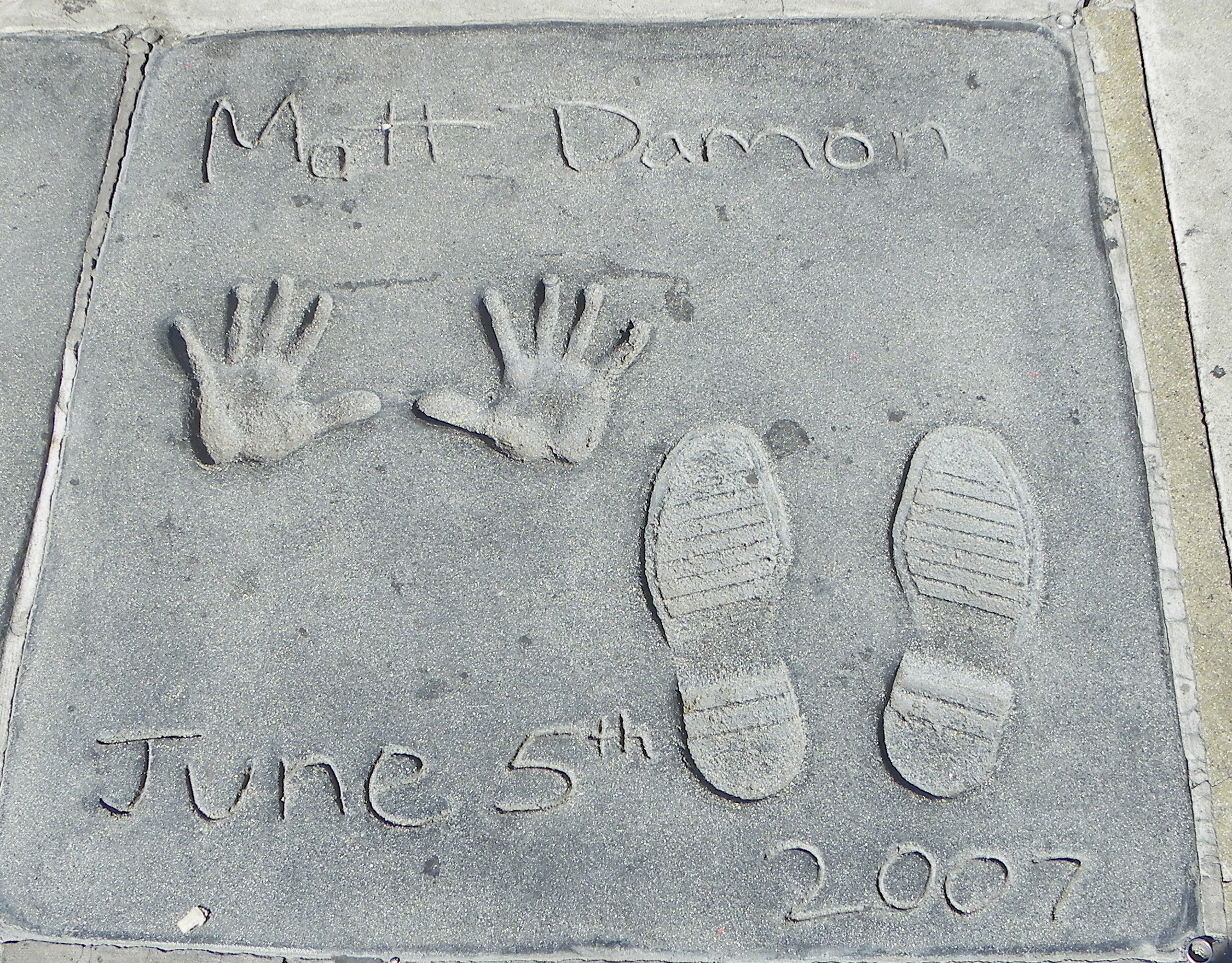 Matt Damon's hand and footprints at Grauman's Chinese Theatre in Hollywood, Los Angeles, California